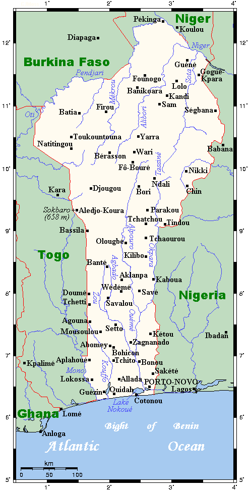 A map showing Benin's cities and main towns. This map's source is here, with the uploader's modifications, and the GMT homepage says that the tools are released under the GNU General Public License.